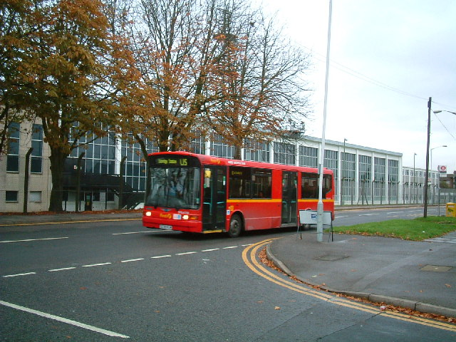 Bus passes RAF West Drayton. Junction of North Road and Porters Way looking north east.